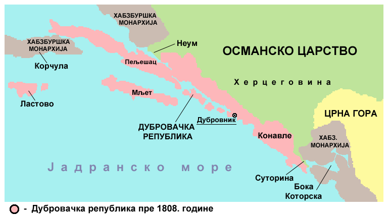 Historic map of the Republic of Dubrovnik (Republic of Ragusa), before 1808.